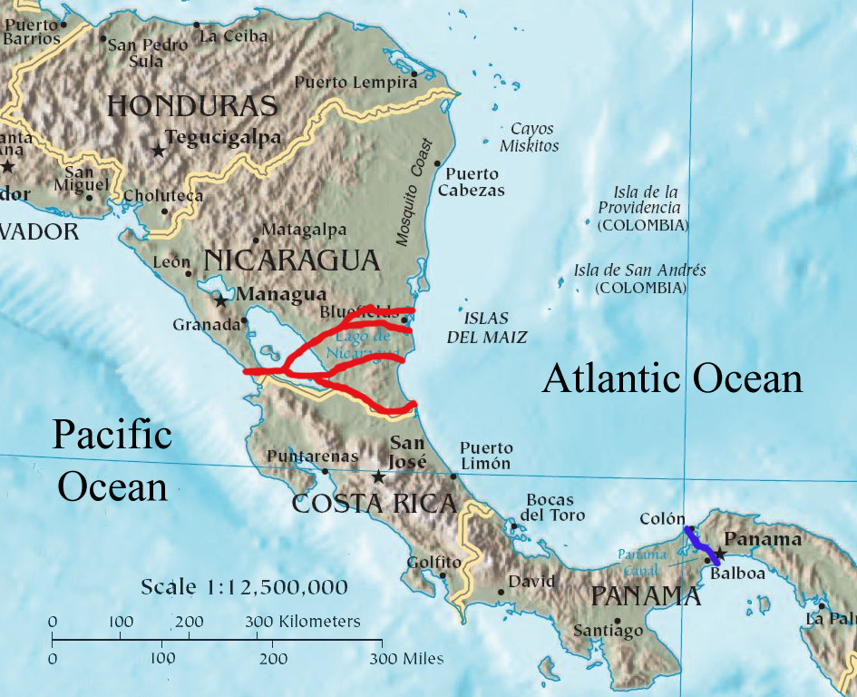 Proposed courses of Nicaragua Canal of 2013 (red) and course of Panama Canal (blue). Top branch is Ecocanal. Based on File:CIA map of Central America.png and International Business Times